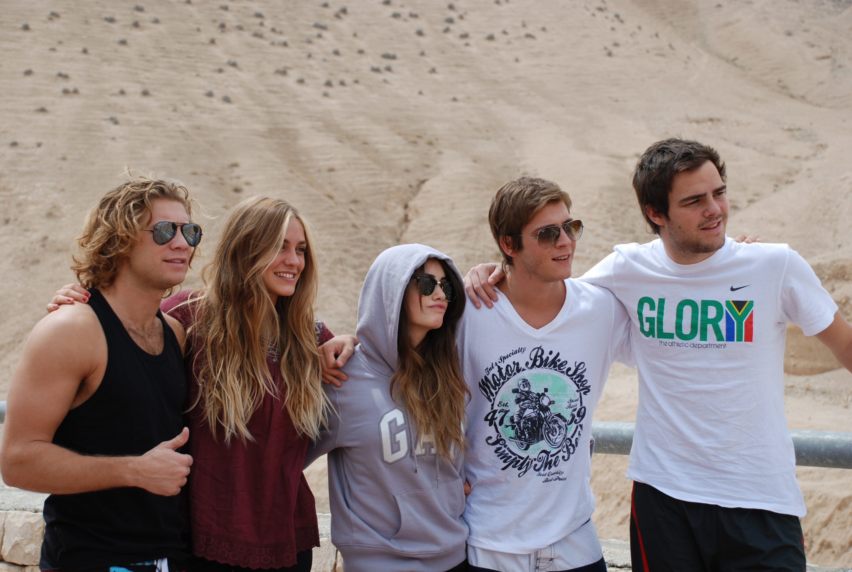 People of Israel